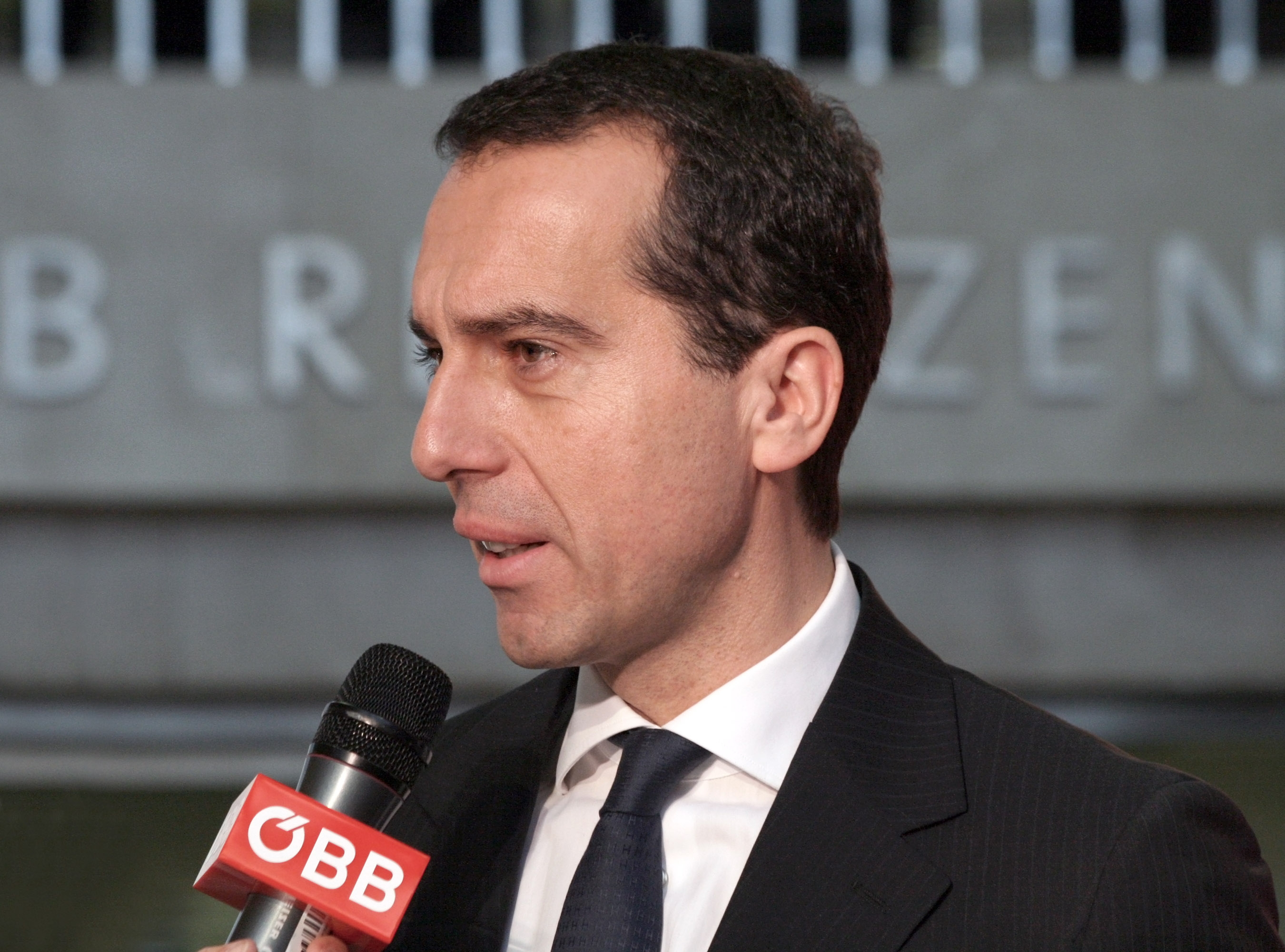 Christian Kern, CEO of ÖBB-Holding-AG, at the opening of BahnhofCity Wien West, Vienna, Austria.